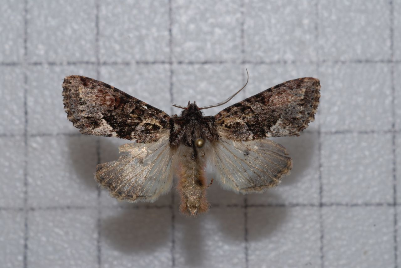 Xylopolia fulvireniforma B.S.Chang,1991 茶腎萋夜蛾 鞍1:P.108,Pl.27-20 張保信 台灣蛾類圖說 五 p.